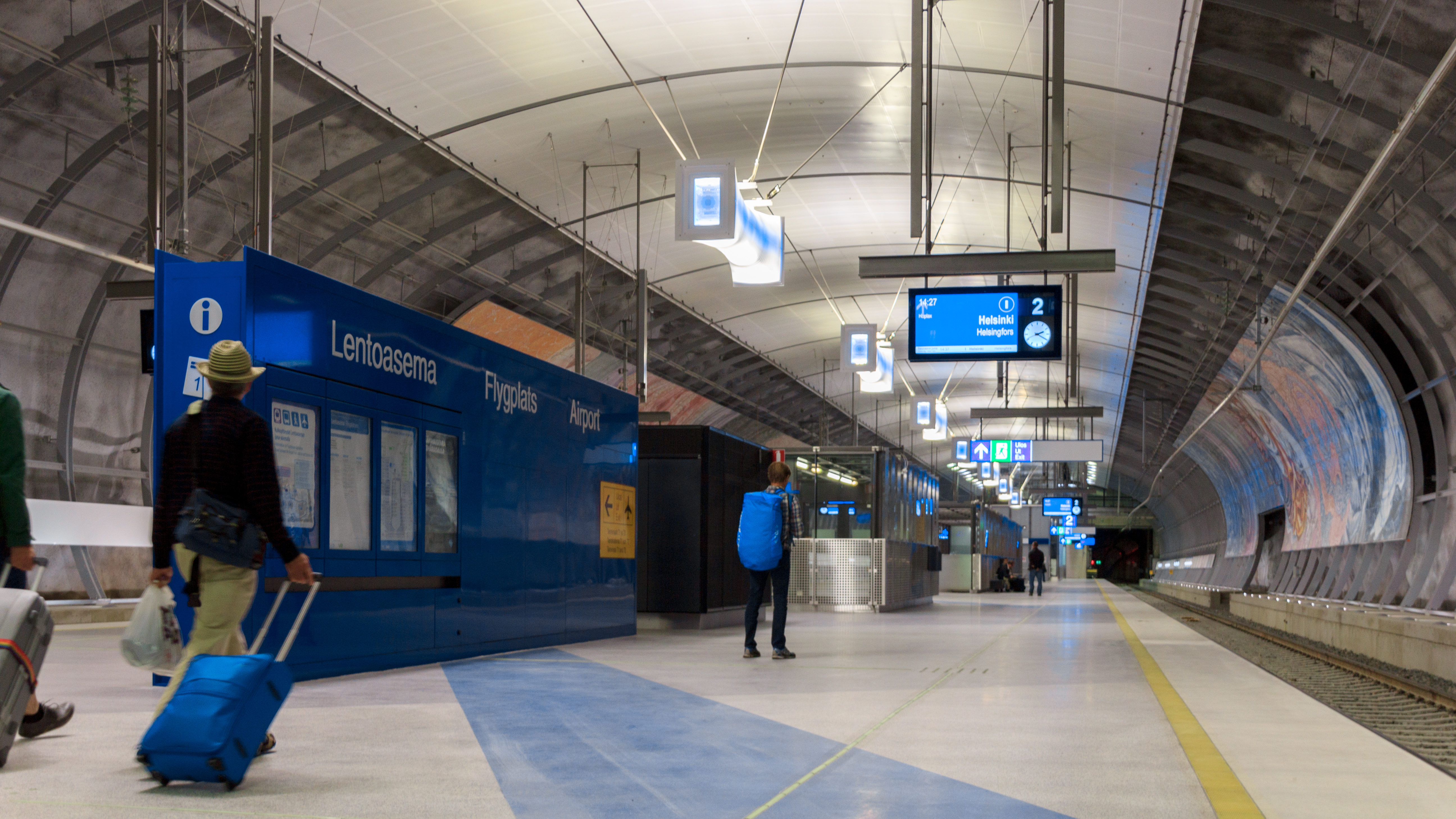 Lentoasema railway station.